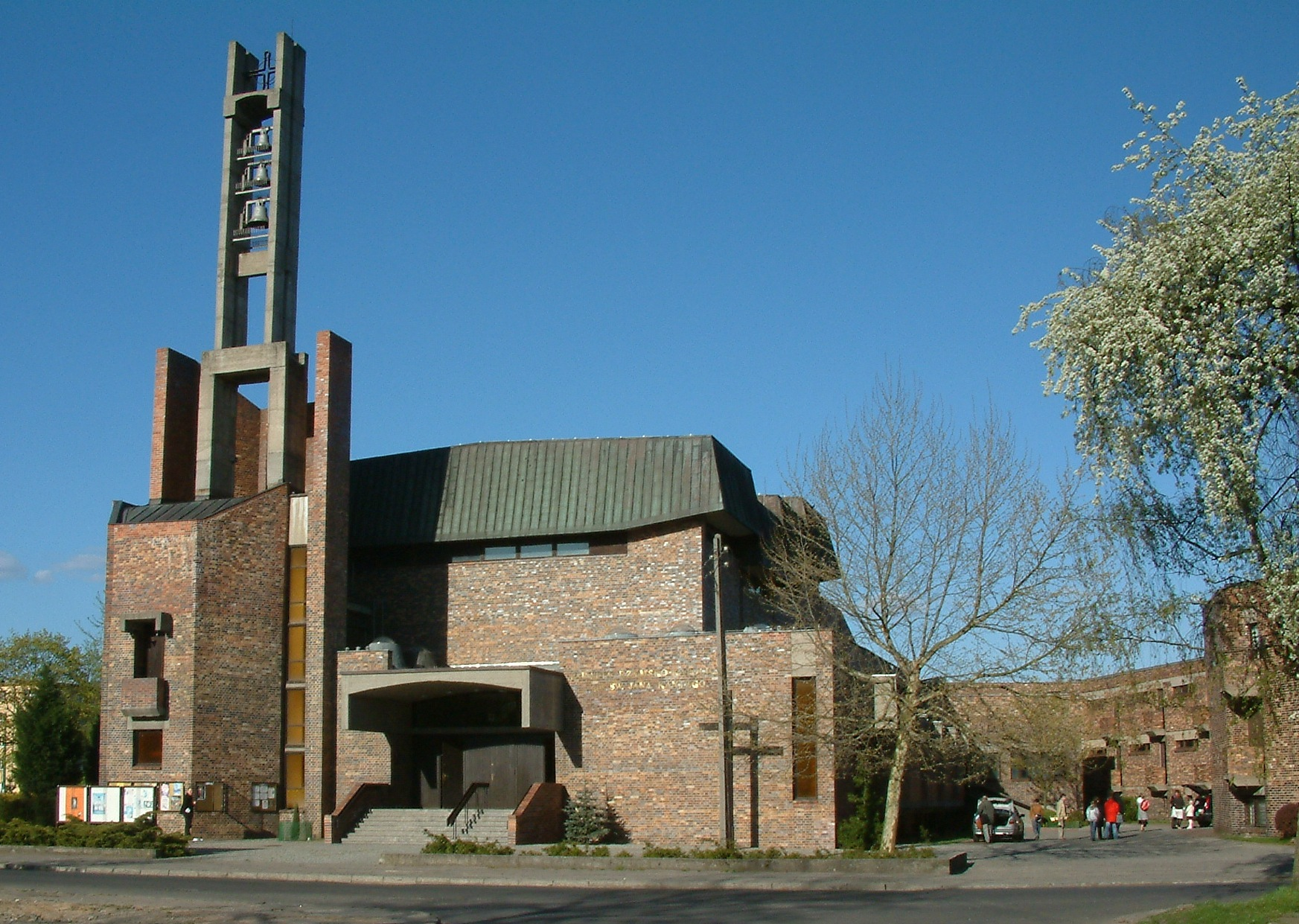 Church of St. John Cantius in Poznań